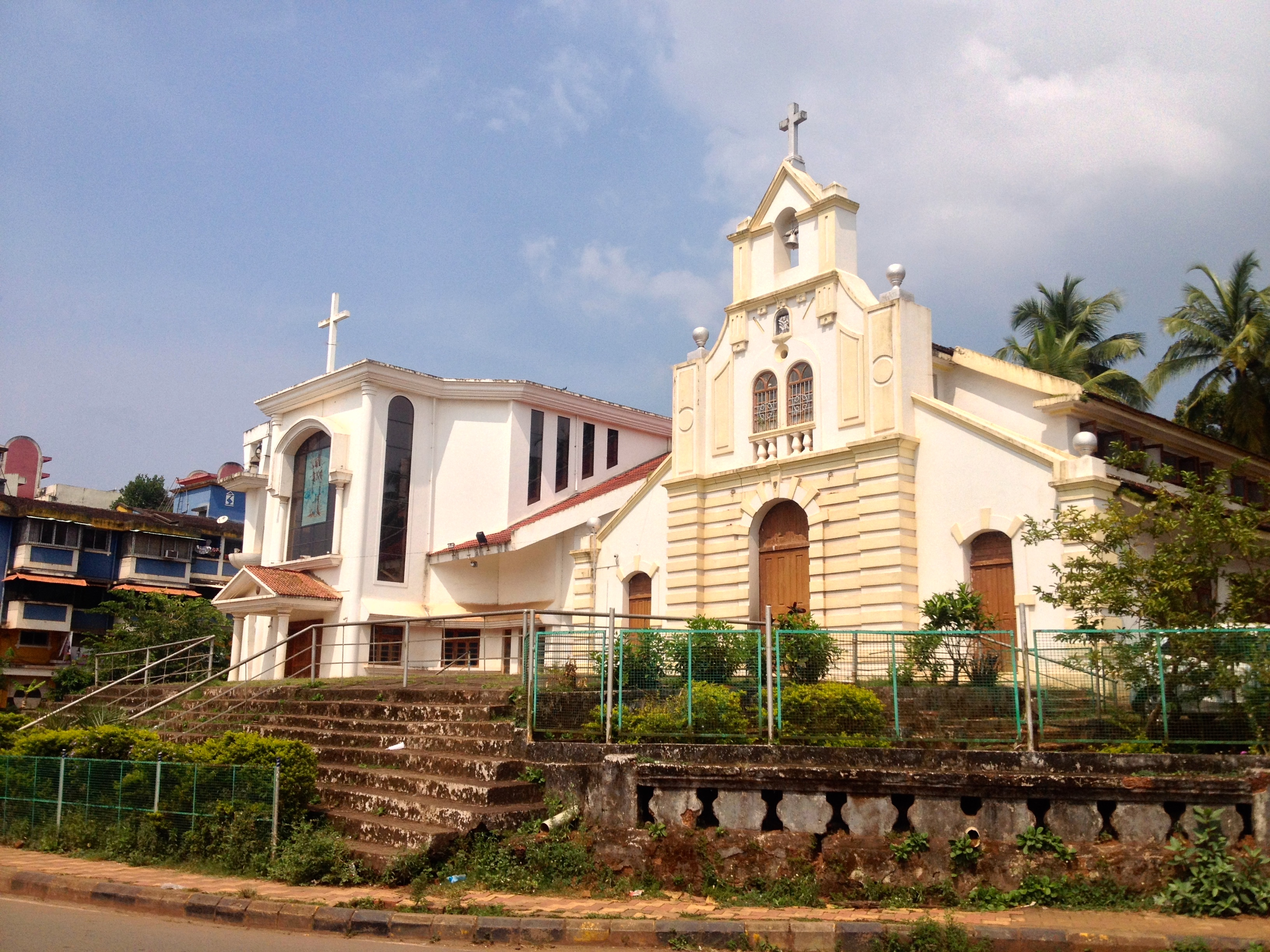 The old and new St. Sebastian Church buildings in Aquem, Margao in Goa.